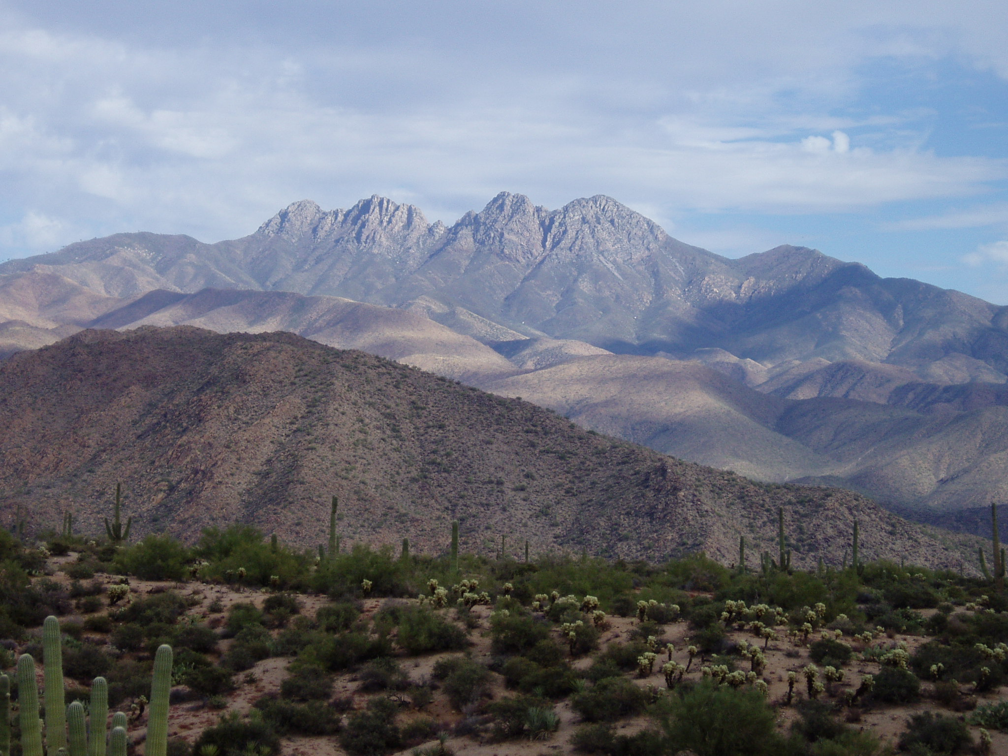 The Four Peaks of the Mazatzal Mountains seen from Fountain Hills in central Arizona, United States